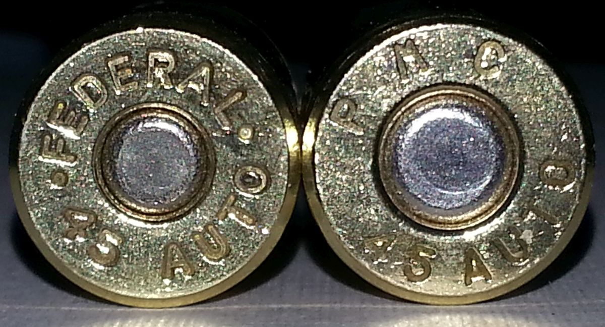 These two .45 ACP cartridges have different primer sizes.